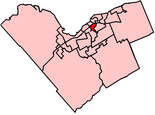 Locator map for Capital Ward in Ottawa,Ontario